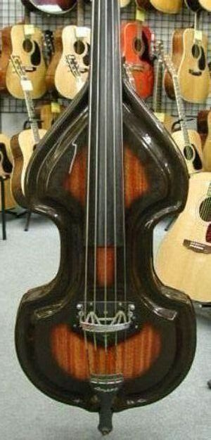 Ampeg 5 String Baby Bass (ca 1960 ?)